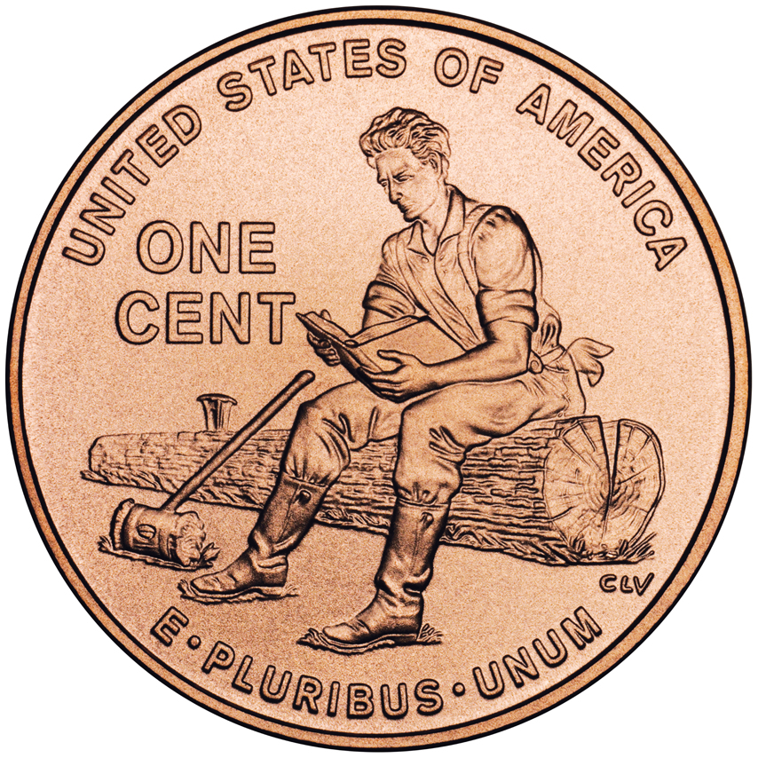 The second of four designs for the reverse of the 2009 Lincoln cent in celebration of the bicentennial of Abraham Lincoln's birth